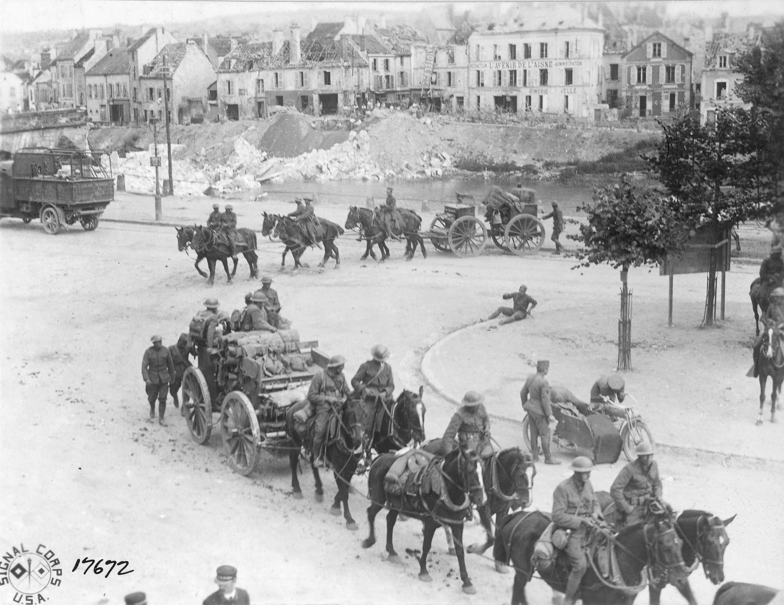 U. S. Field Artillery in Chateau-Thierry. U.S. Army Signal Corps Photograph.